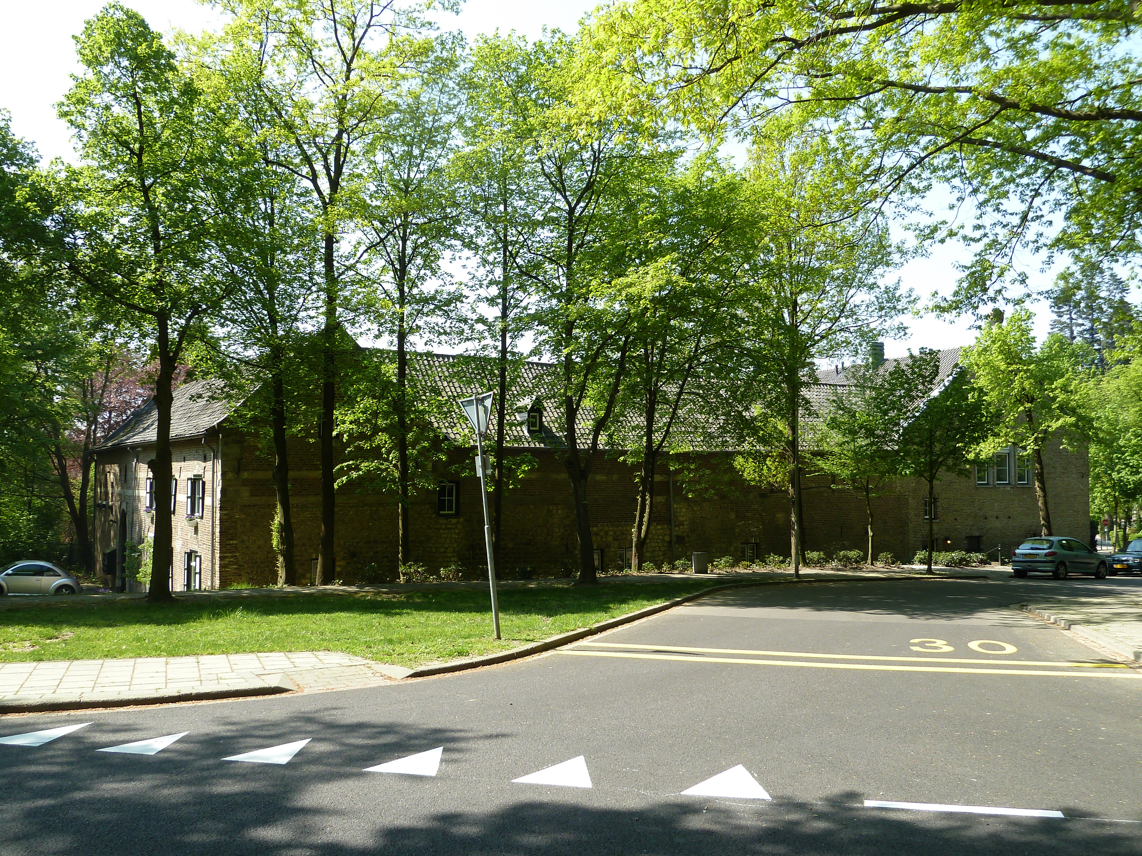 Caumermolenweg 37, Heerlen, Limburg, the Netherlands